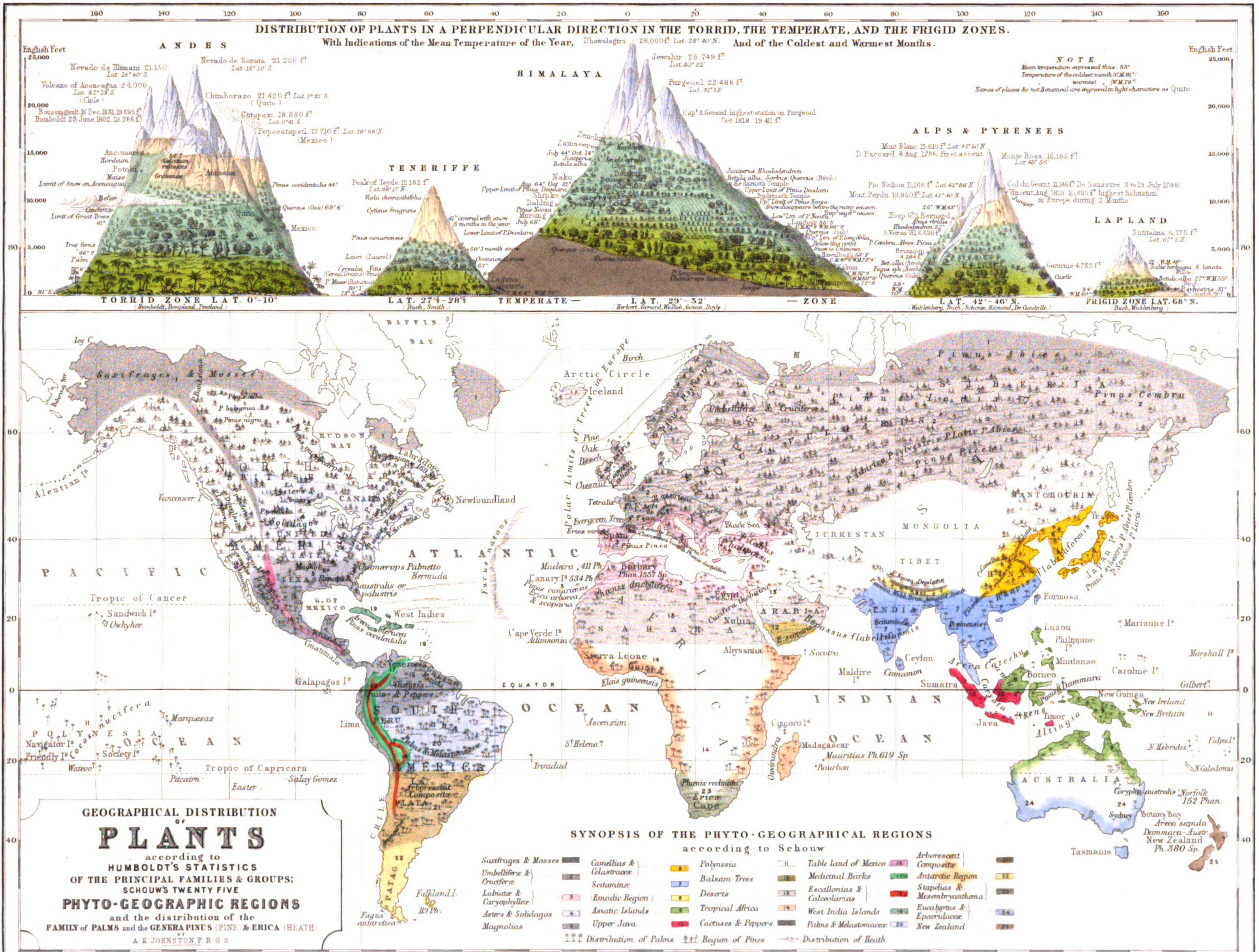 Geographical Distribution of Plants and Distribution of Plants in a Perpendicular Direction in the Torrid, the Temperate, and the Rigid Zones, published 1850 in The Physical Atlas of Natural Phenomena: Reduced from the Edition in Imperial Folio for the Use of Colleges, Academies and Families, edition of the 1848 The Physical Atlas by Alexander Keith Johnston (1804–1871)